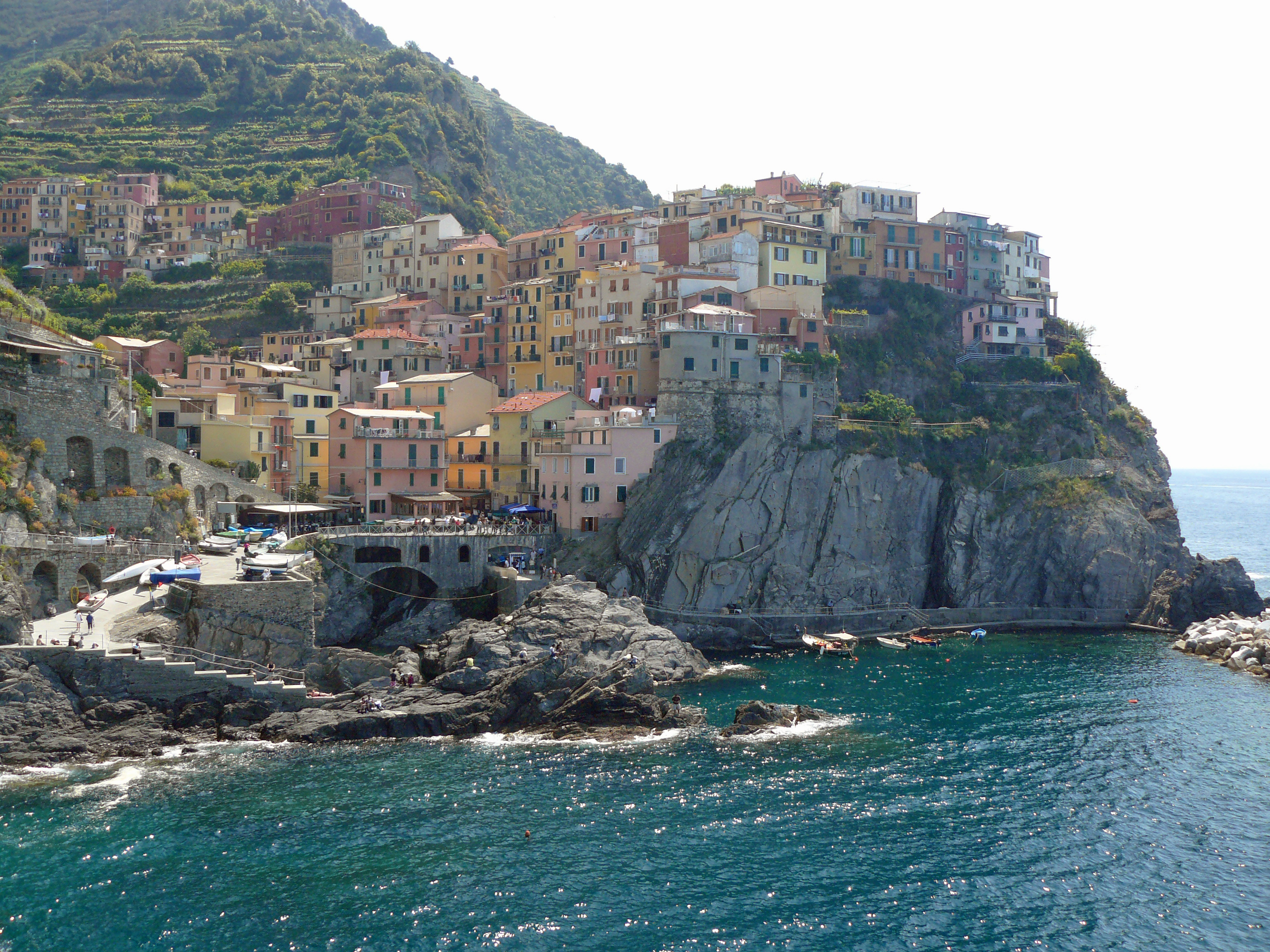 One of the 5 villages known as "Cinque Terre" in Italy.